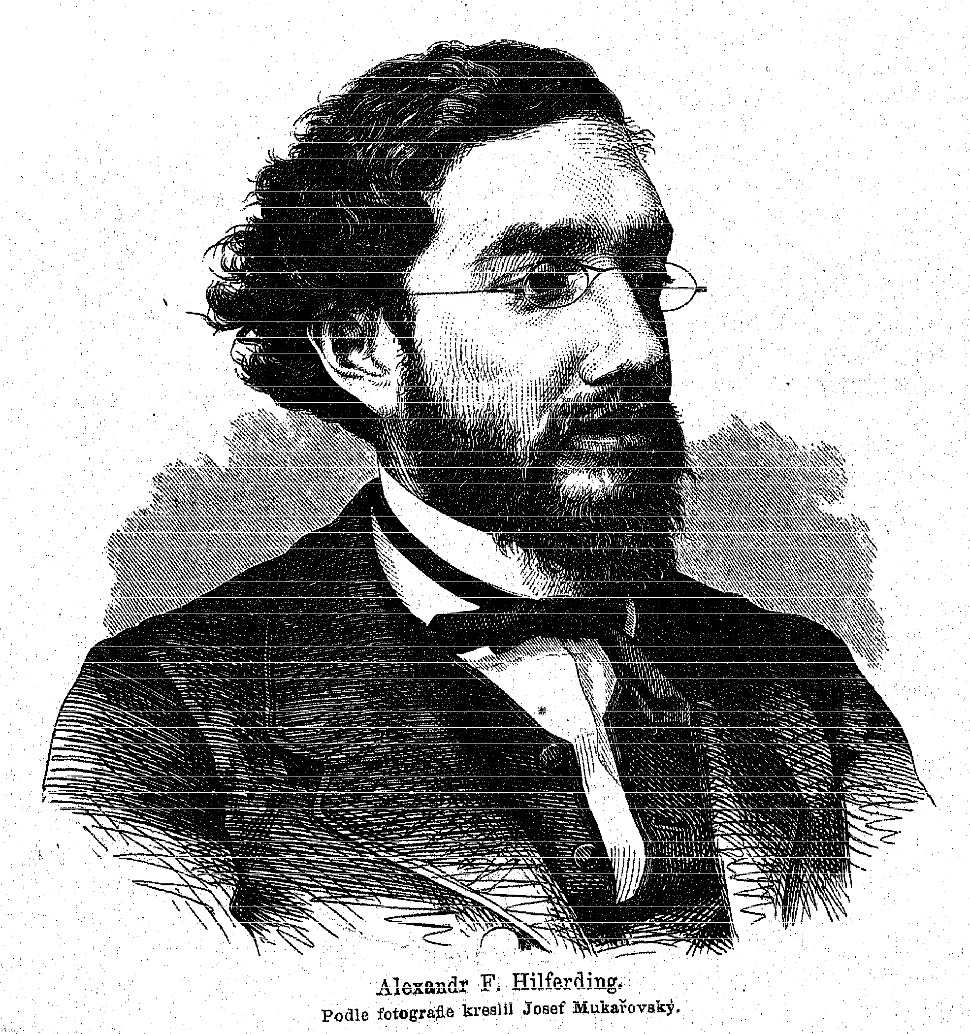 Portrait of Aleksander Hilferding (1831 - 1872) was a Russian Slavists of German origin.